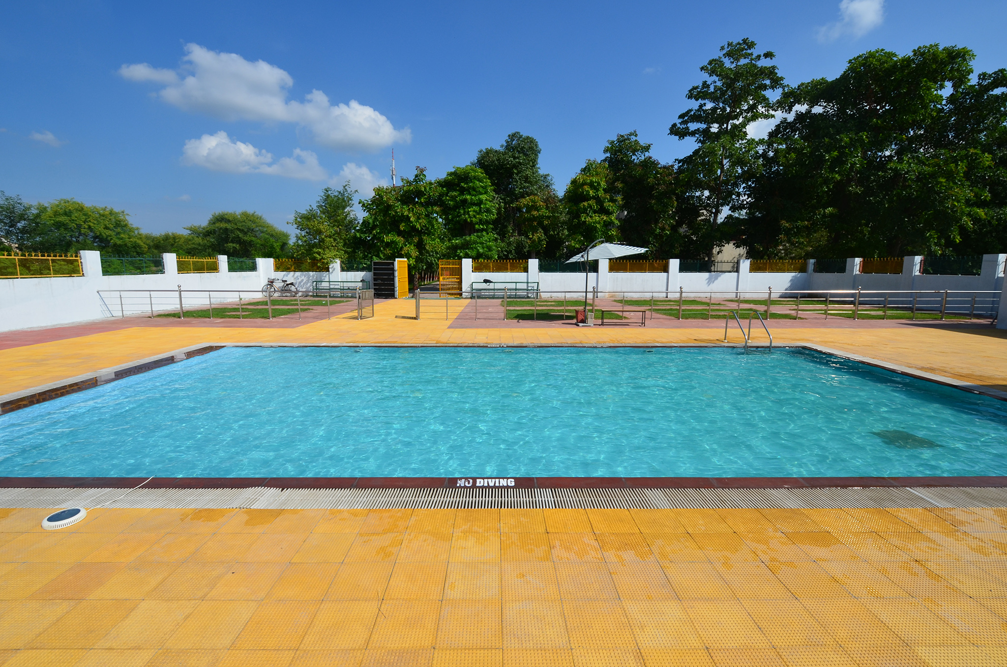 Swimming Pool of Yadavindra Public School, Mohali